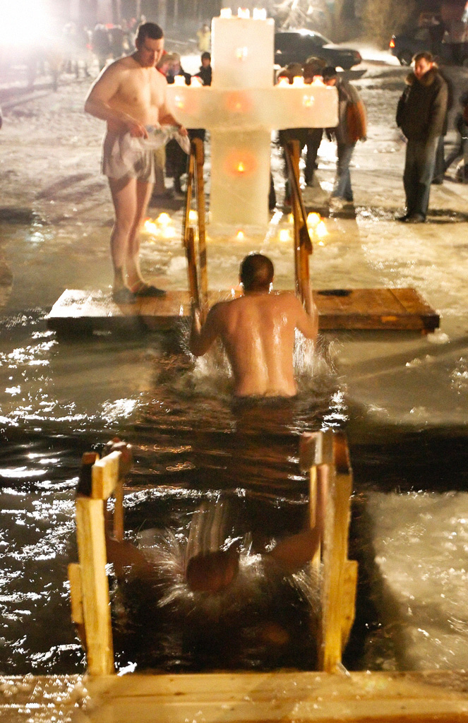 “Epiphany bathing”. Epiphany bathing at the Tolga Convent on the Volga River. Orthodox believers celebrating the Feast of the Epiphany.